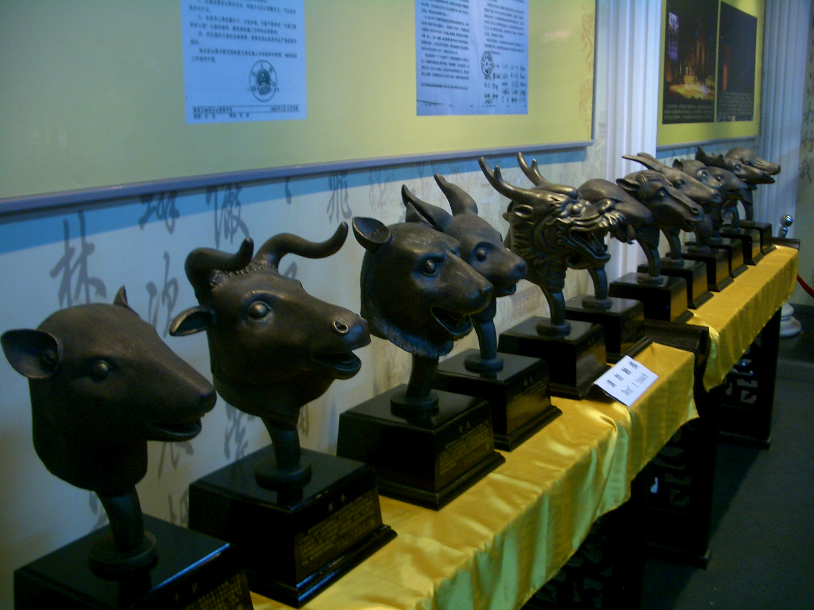 The bronze figures' heads lineup from the Haiyantang fountain exhibiton on the Yuanmingyuan grounds